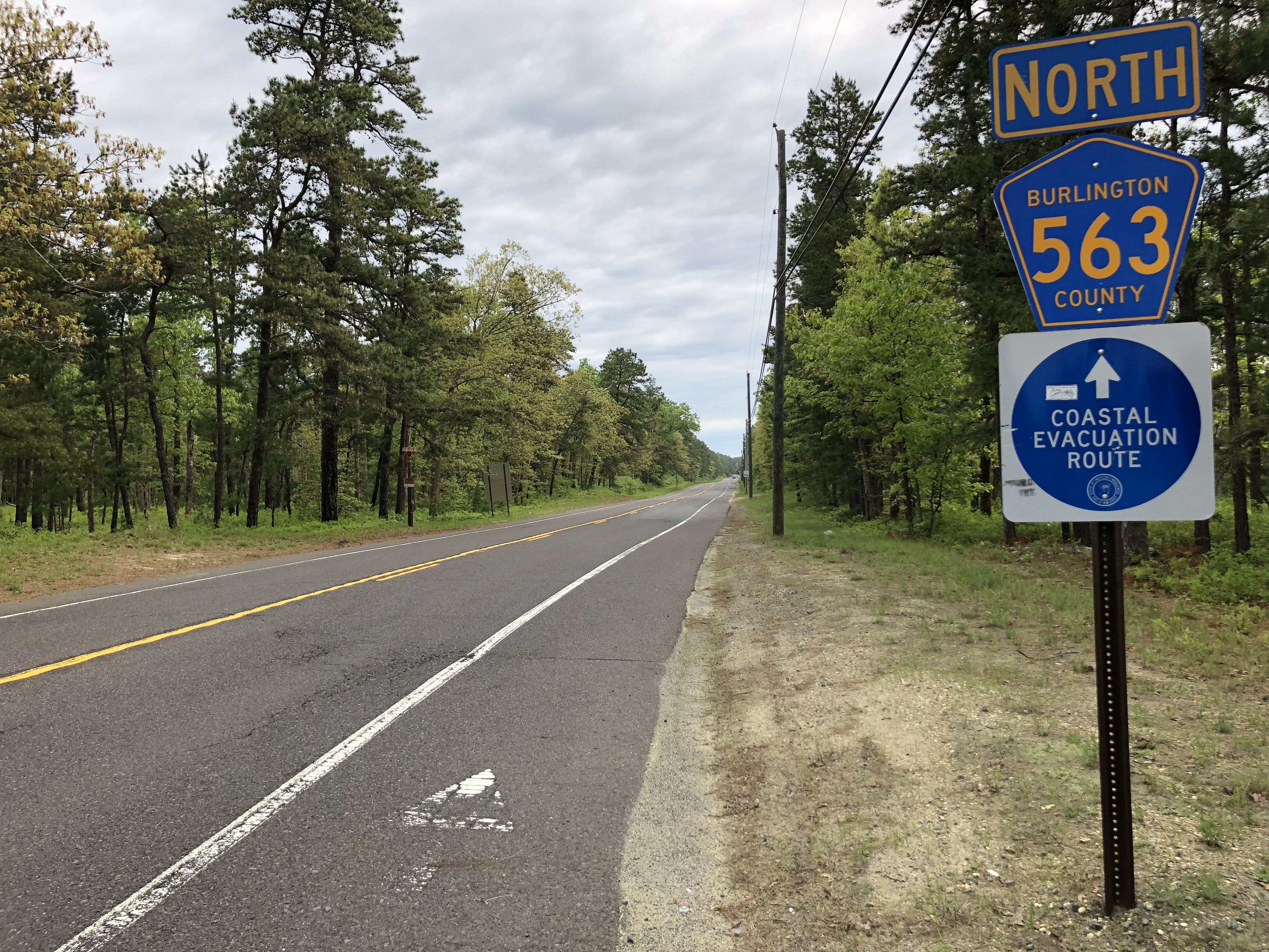 View north along Burlington County Route 563 (Greenbank-Chatsworth Road) at Burlington County Route 679 (Chatsworth Road) in Washington Township, Burlington County, New Jersey